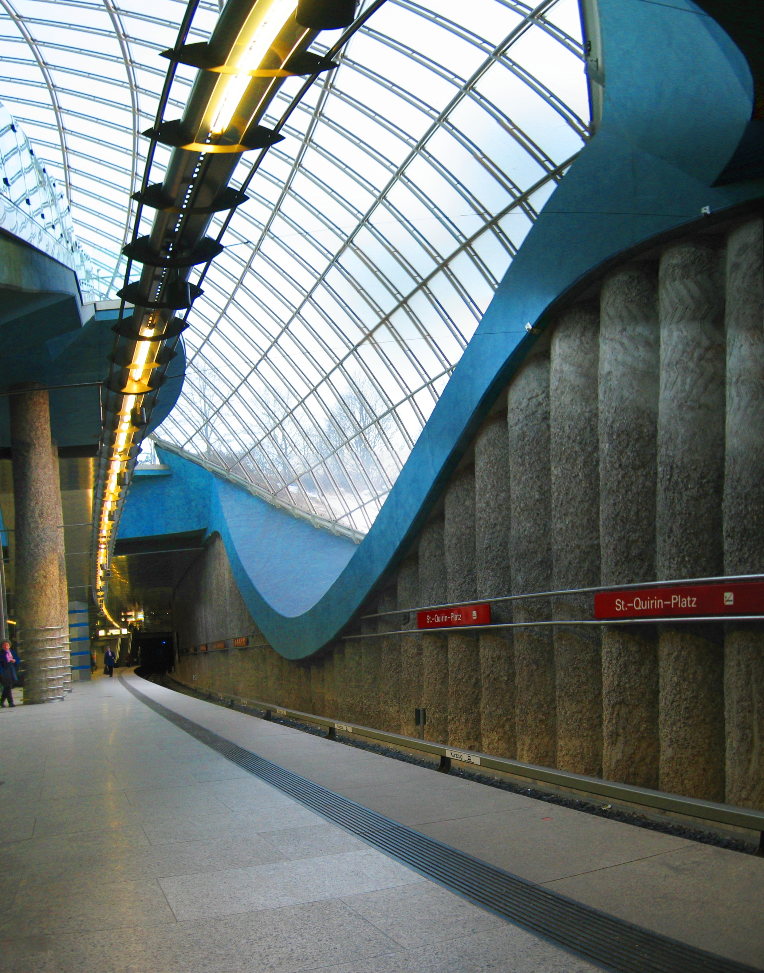 Munich subway station St.-Quirin-Platz (U1)